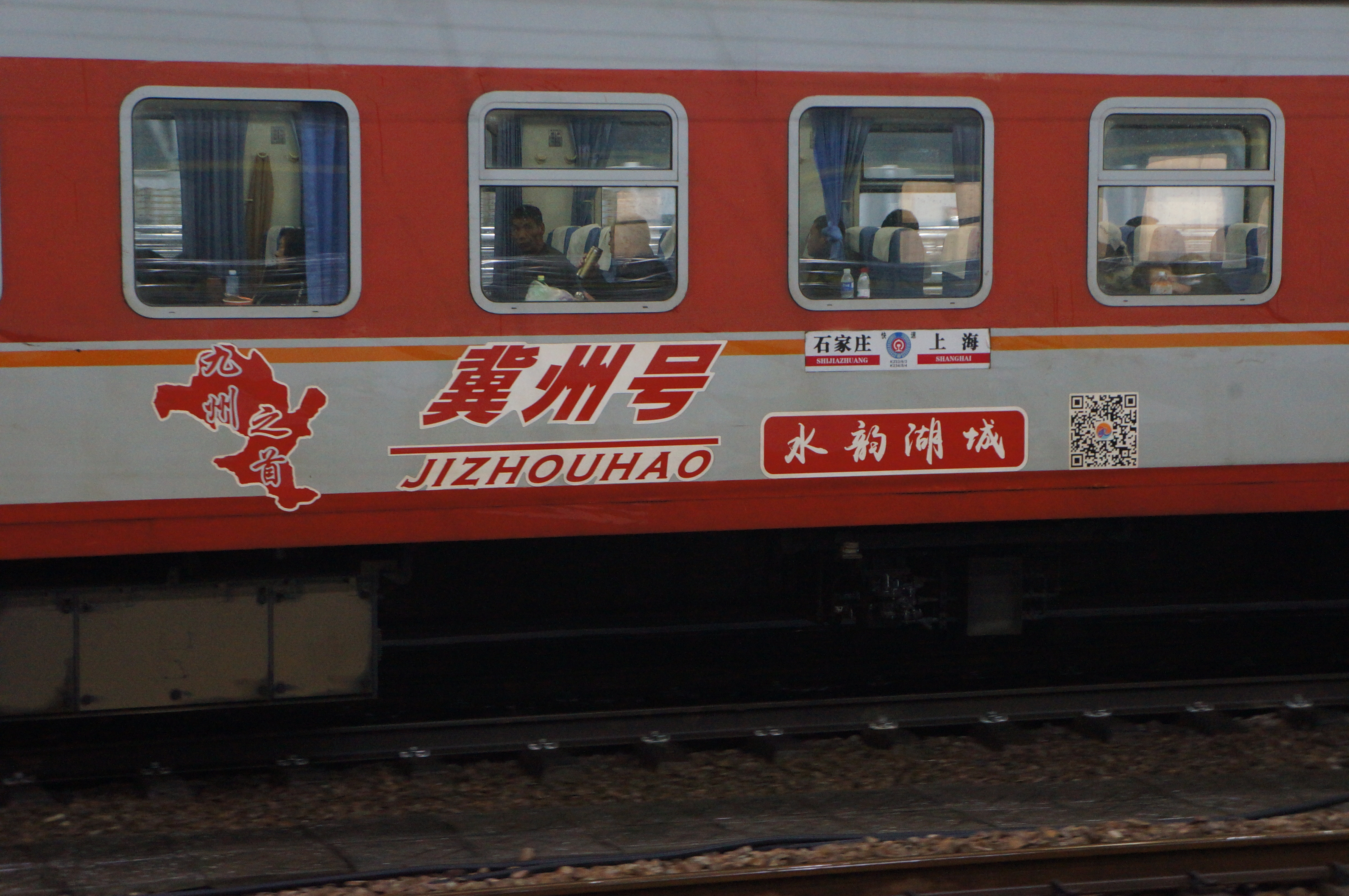 K233 4 5 6 infoboard in 201812